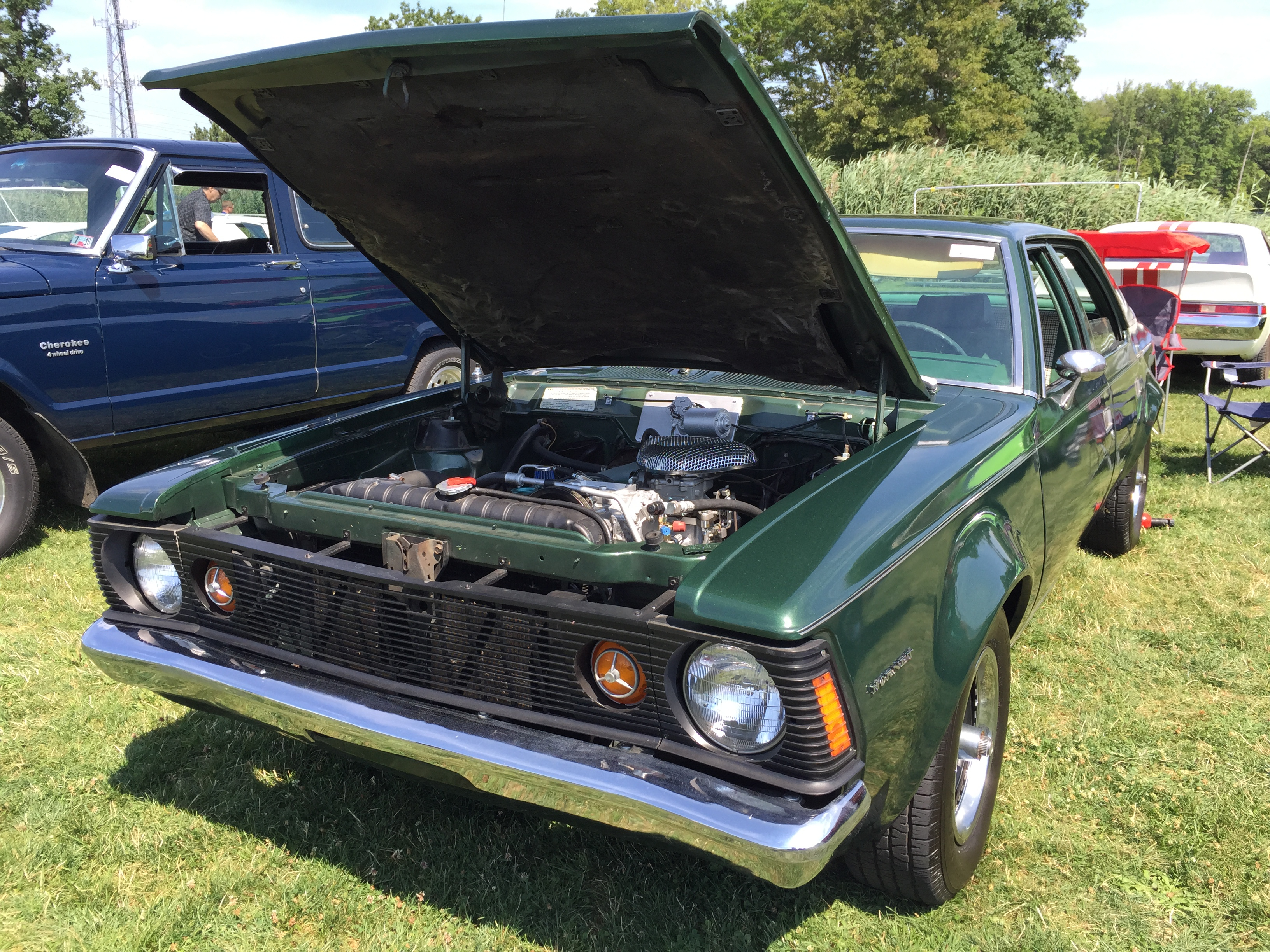 1972 AMC Hornet SST, a compact-sized four-door sedan built by American Motors Corporation. The SST was the top trim version for the Hornet line during the 1972 model year. Picture taken during the American Motors Owners Association (AMO) annual convention that was held July 2015 near Cleveland, Ohio.